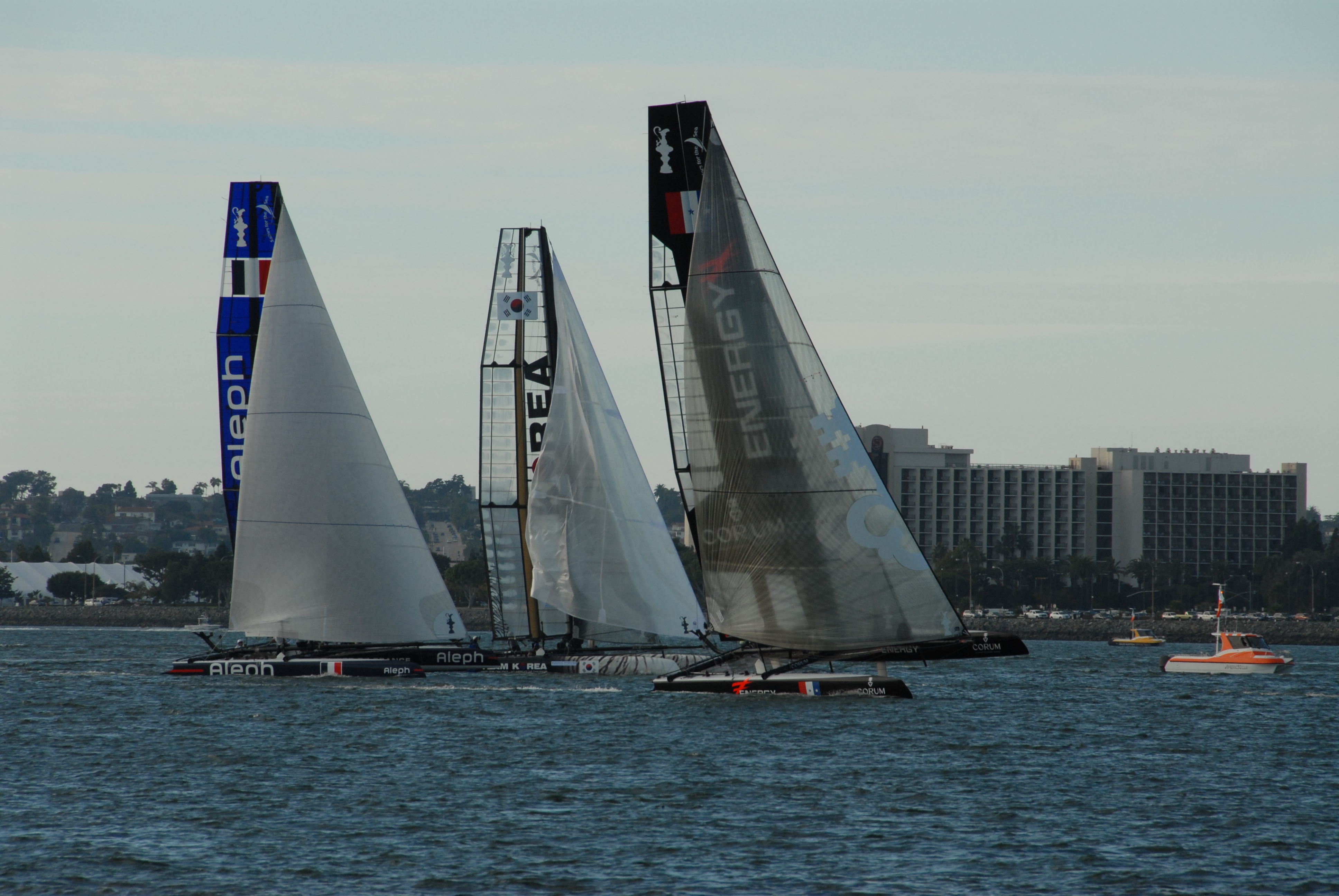 America's Cup World Series in San Diego: Port Cities Challenge (Photo: Dale Frost)